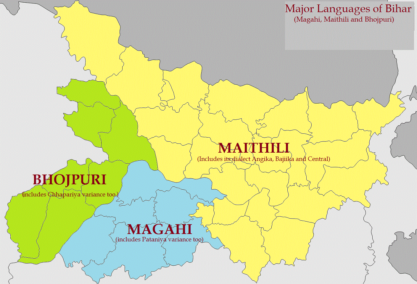 Languages of Bihar